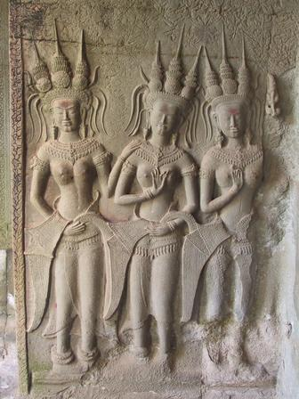 Apsara relief from Angkor Wat, Cambodia, by Andrew Lih